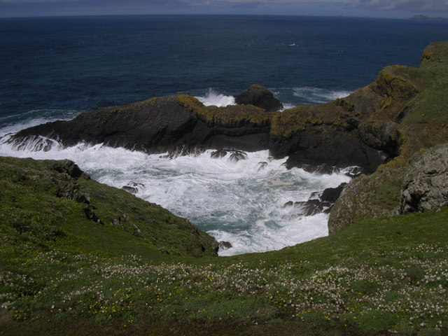 Pigstone Bay Bay at the western end of Skomer, with white water swirling. Two seals were swimming in the bay at the time, although they were underwater at the moment this photo was taken.